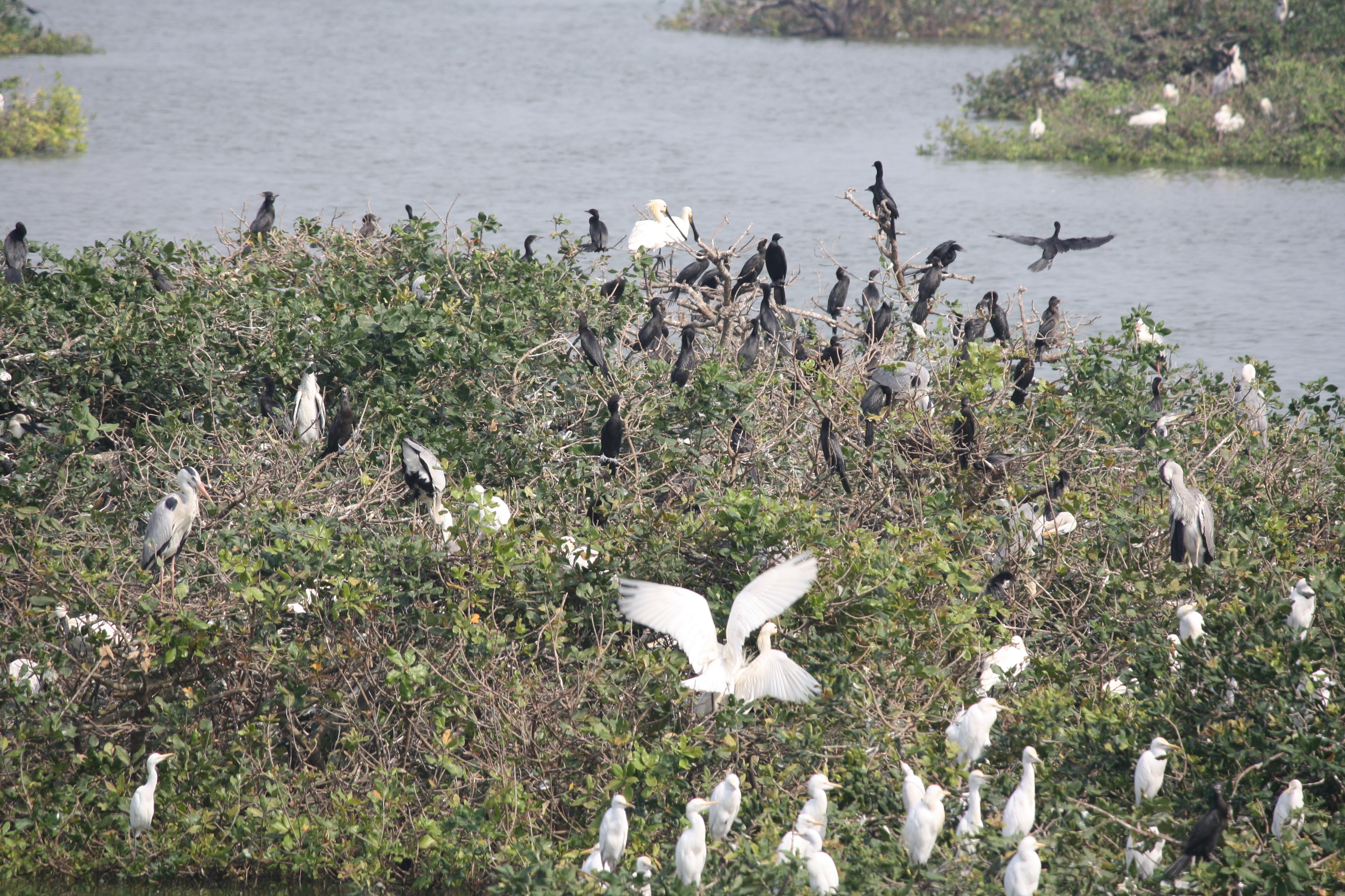 Various birds at Vedanthangal Bird Sanctuary, Tamil Nadu, India. Eurasian Spoonbills (Platalea leucorodia), Little Cormorants (Phalacrocorax niger), Asian Openbill Storks (Anastomus oscitans) and Eastern Great Egrets (Ardea alba modesta).